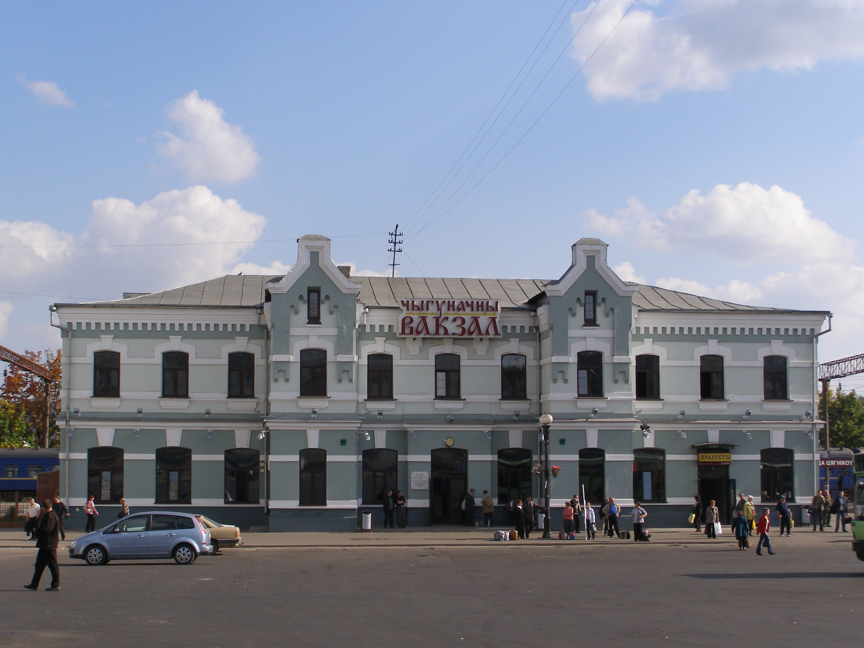 Railway Station in Barysaŭ, Belarus